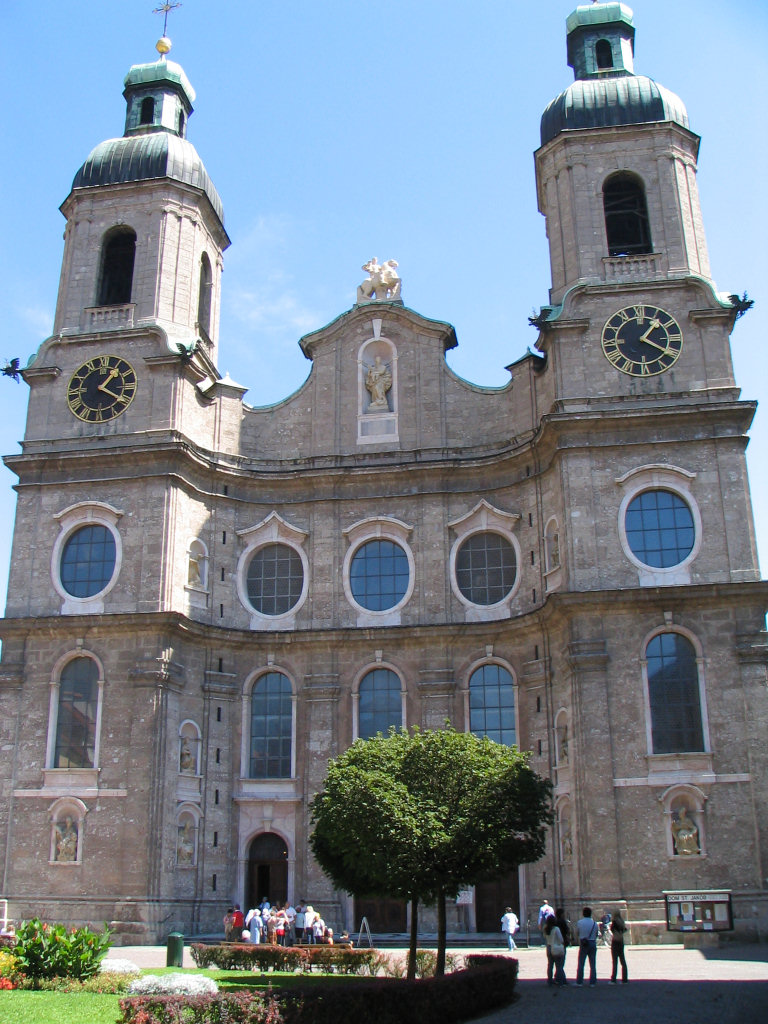 Description: Dom St. Jakob Innsbruck Austria Source: taken by Pahu Capture date: August 2005